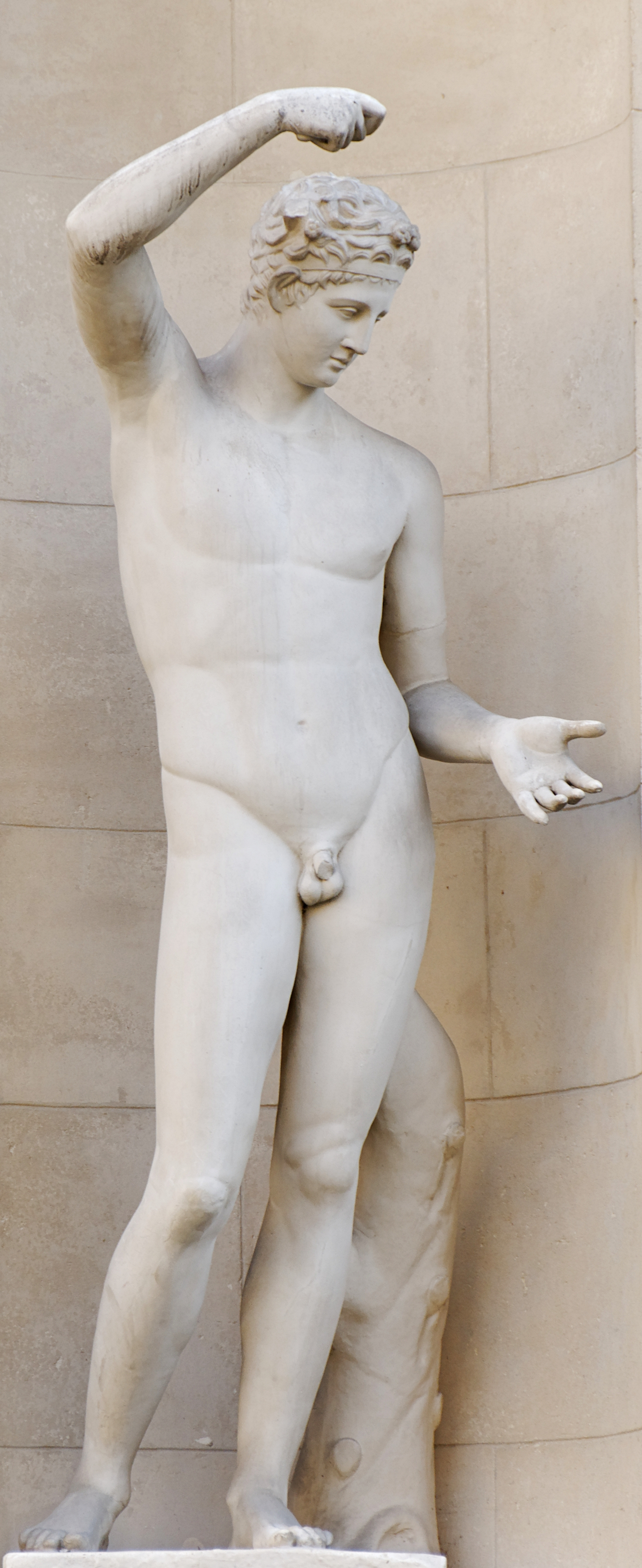 Pouring Satyr of the Torre del Greco type. Plaster cast after the antique statue now in the Musei Capitolini, 2nd century AD.